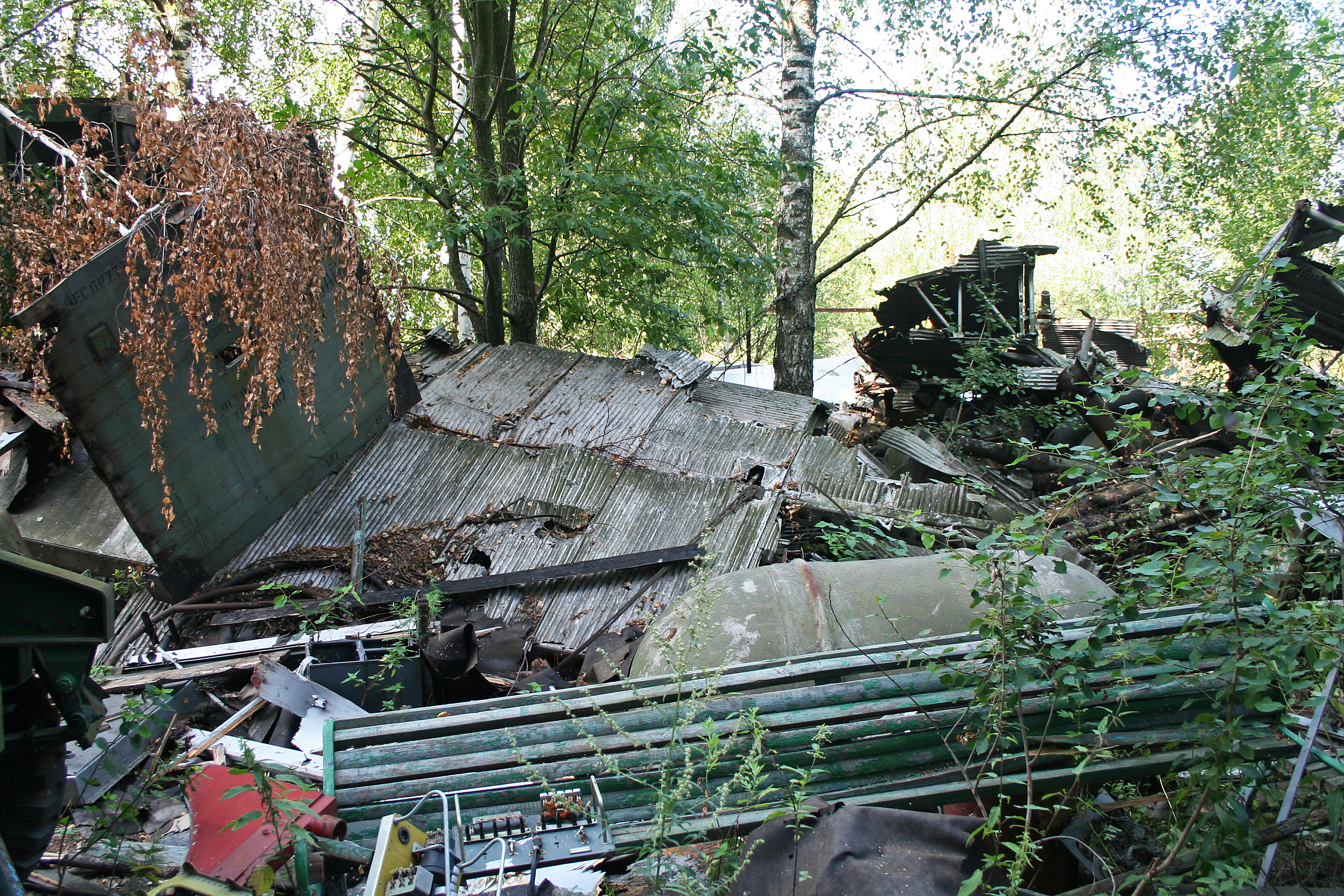 This is believed to be the remains of a TB-3 heavy bomber (although it could possibly be from a TB-1 (ANT-4). Designated the ANT-6 by Tupolev, the TB-3 was a four engined type which first flew in 1930 but was still in Soviet service at the end of WW2. Sadly, no complete example exists, so we can only hope that this wreckage will eventually be rebuilt into a whole airframe. At the time of our visit, it was all stored in the trees behind the restoration hangar. Russian Air Force Museum. Monino, Russia. 13-8-2012